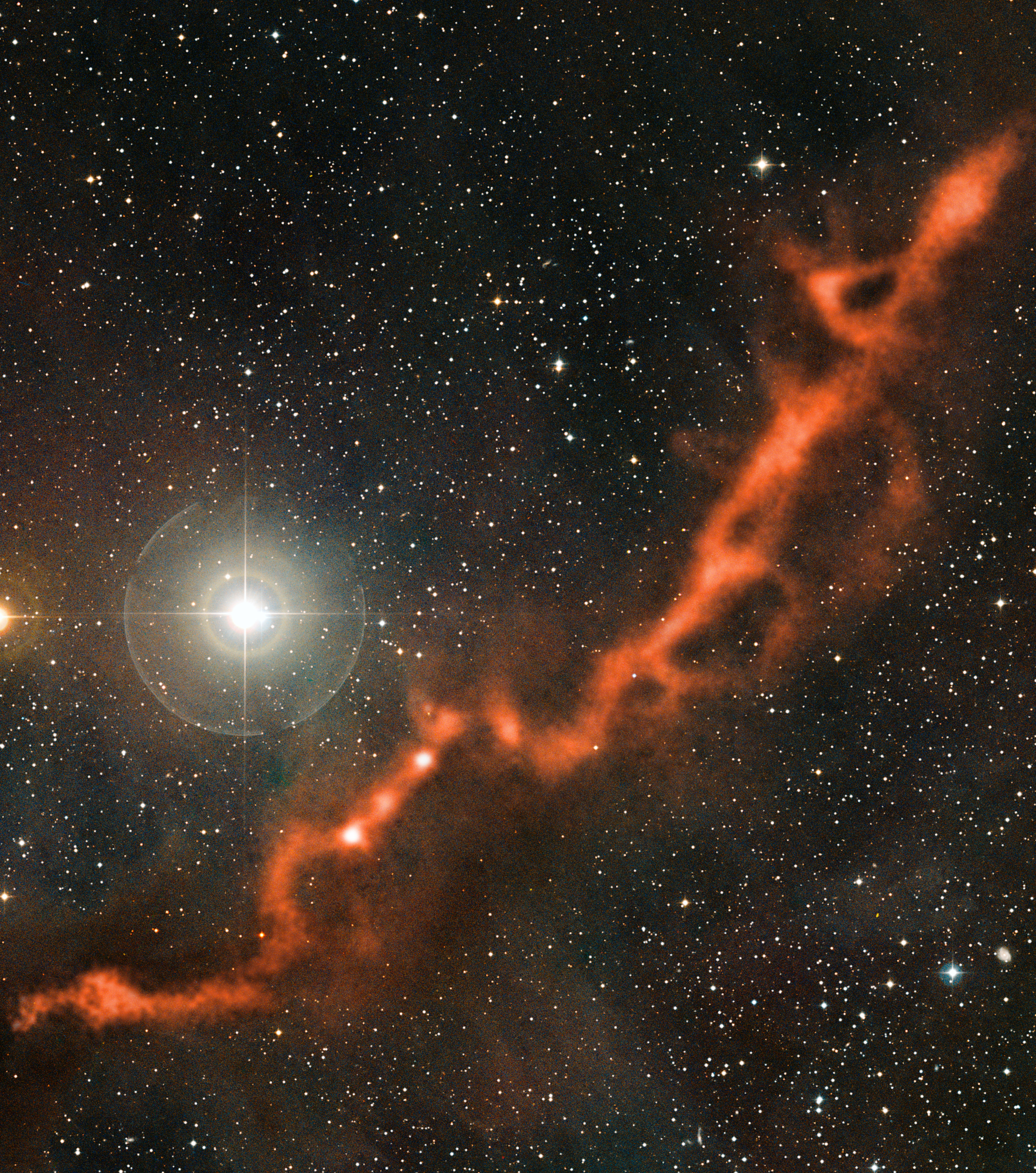 This image from the APEX telescope, of part of the Taurus Molecular Cloud, shows a sinuous filament of cosmic dust more than ten light-years long. In it, newborn stars are hidden, and dense clouds of gas are on the verge of collapsing to form yet more stars. The cosmic dust grains are so cold that observations at submillimetre wavelengths, such as these made by the LABOCA camera on APEX, are needed to detect their faint glow. This image shows two regions in the cloud: the upper-right part of the filament shown here is Barnard 211, while the lower-left part is Barnard 213. The submillimetre-wavelength observations from the LABOCA camera on APEX, which reveal the heat glow of the cosmic dust grains, are shown here in orange tones. They are superimposed on a visible-light image of the region, which shows the rich background of stars. The bright star above the filament is φ Tauri.